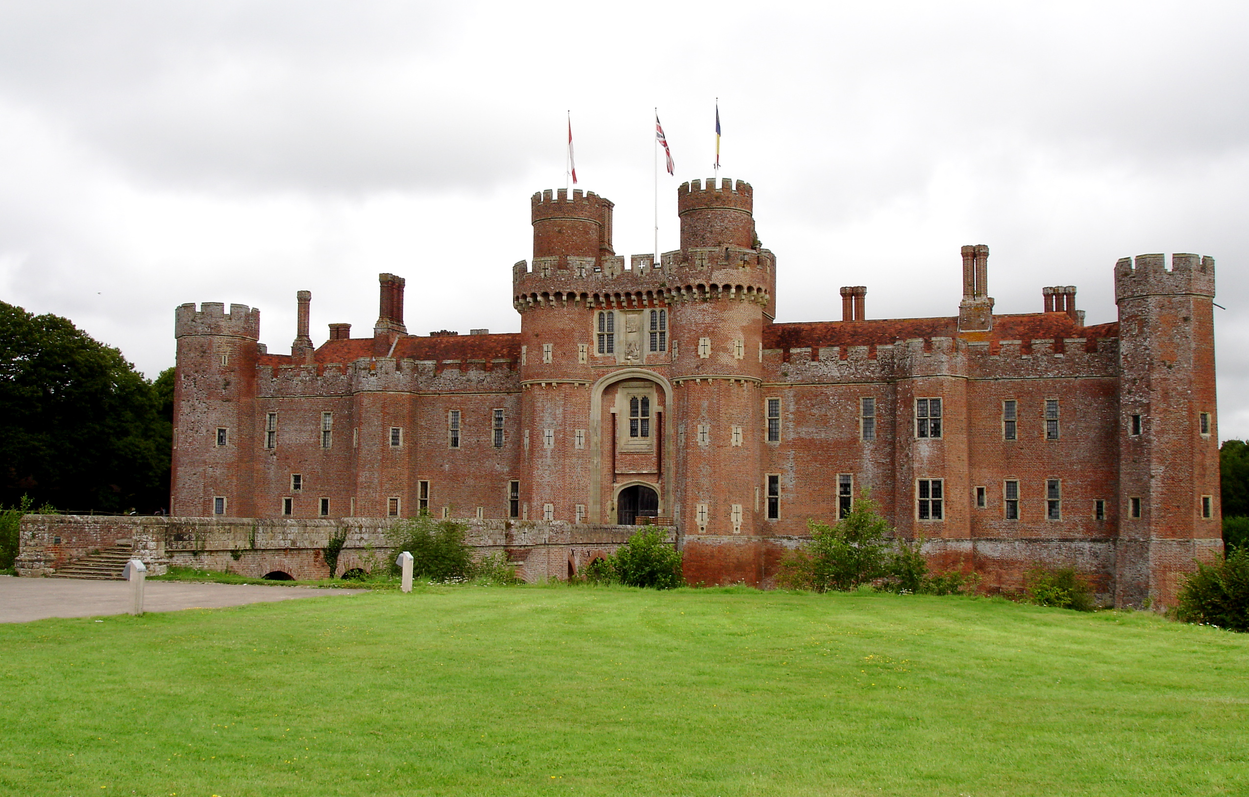 The south front of Herstmonceux Castle.